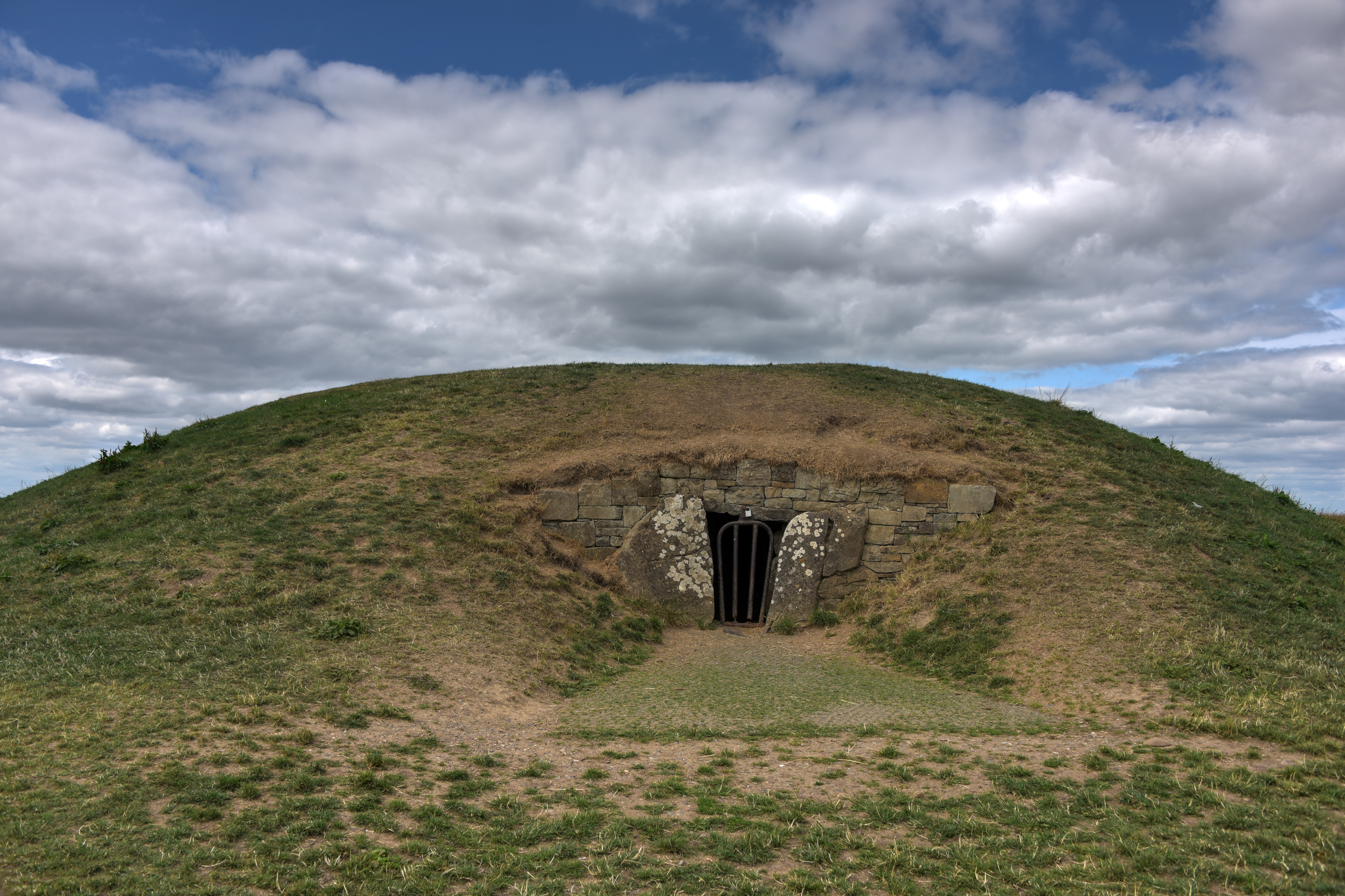 A Neolithic passage tomb on the Hill of Tara, Ireland.